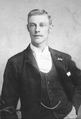 English golf professional and golf course architect Willie Tucker, photographed circa 1900.